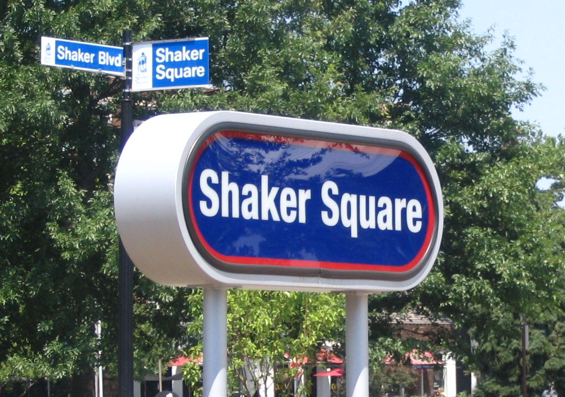 Station sign at Shaker Square station on Cleveland's RTA Rapid Transit